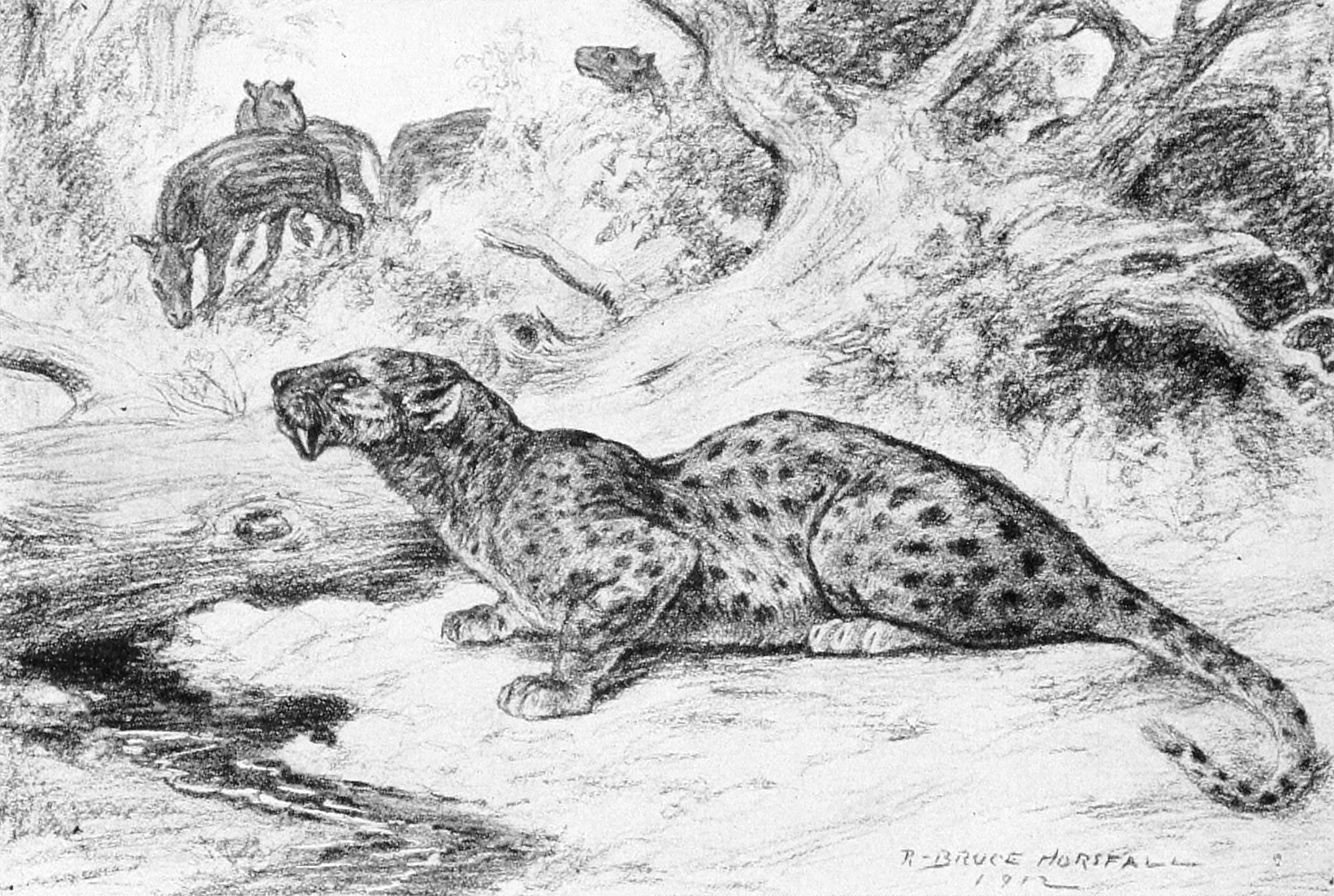 Life restoration of Hoplophoneus primaevus and Merycoidodon from W.B. Scott's A History of Land Mammals in the Western Hemisphere. New York: The Macmillan Company.